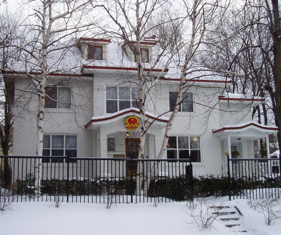 Taken by SimonP in January 2005